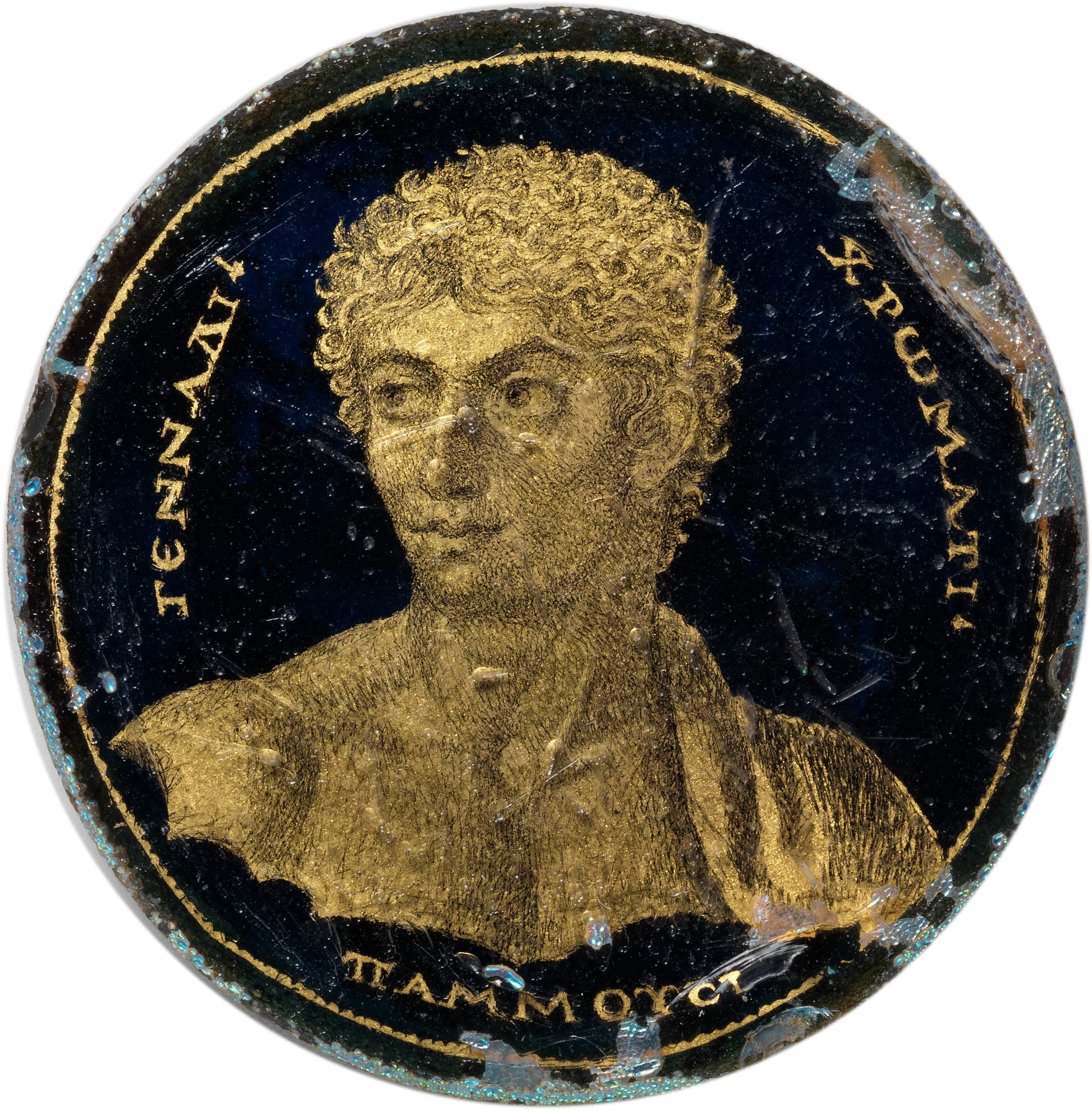 Roman; Medallion; Glass-Gold glass